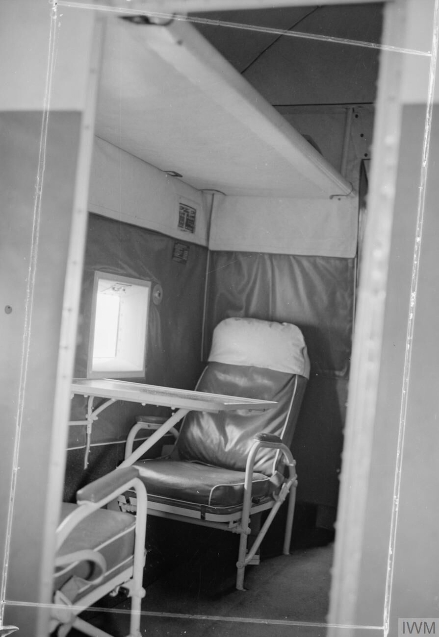 American Aircraft in Royal Air Force Service 1939-1945- Consolidated Liberator. The extra cabin fitted in LB-30 Liberator, AL504 "Commando", the personal transport aircraft of the Prime Minister, photographed at Northolt, Middlesex, on returning to the United Kingdom, following extensive modification and a complete overhaul by the Consolidated Aircraft Company at San Diego, California. The fuselage was extended by seven feet to accommodate an extra cabin and table for the Prime Minister, shown here.